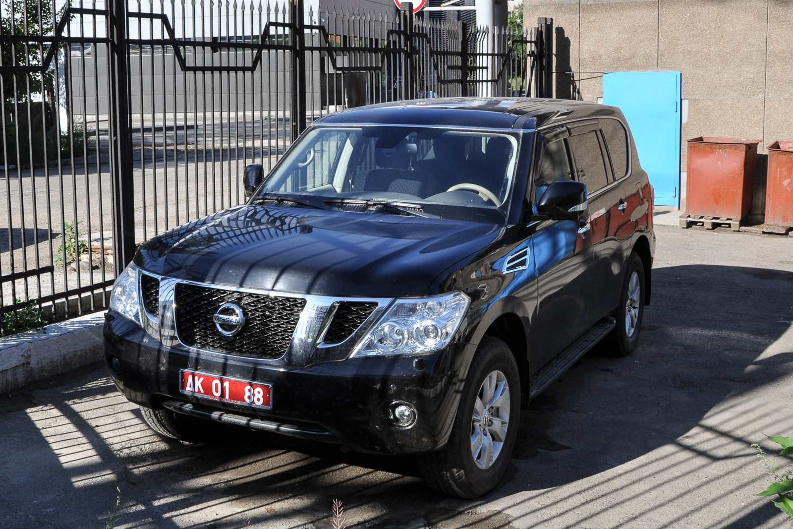 Mongolian diplomatic licence plate